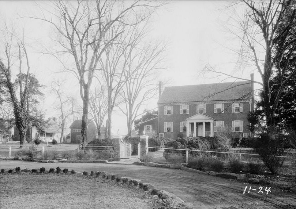 Photographic view of Dan's Hill, State Route 1011, Danville vicinity, Pittsylvania County, Virginia. Historic American Buildings Survey, Library of Congress, Washington, D. C.